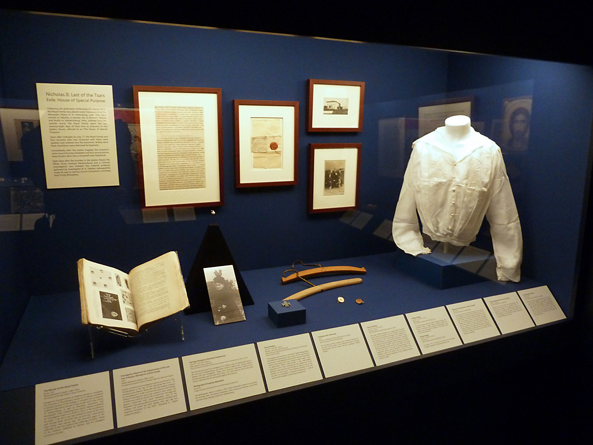 Holy Trinity Seminary - Items associated with the last days of the Imperial family